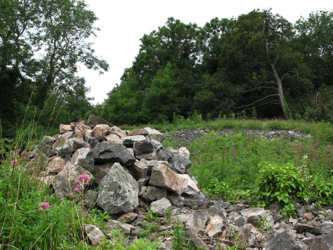 The remains of the "ancient British" (celtic) encampment on Worlebury Hill, Weston-super-Mare, North Somerset, England